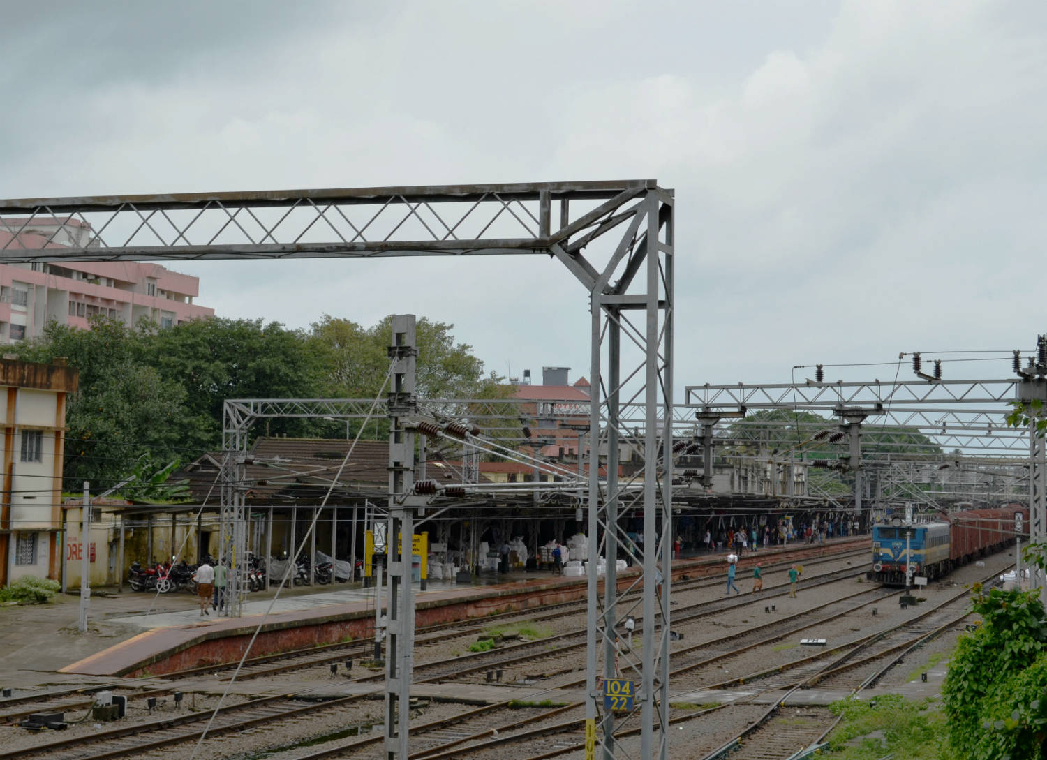 Ernakulam Town North Railway Station a view from Ernakulam north bridge